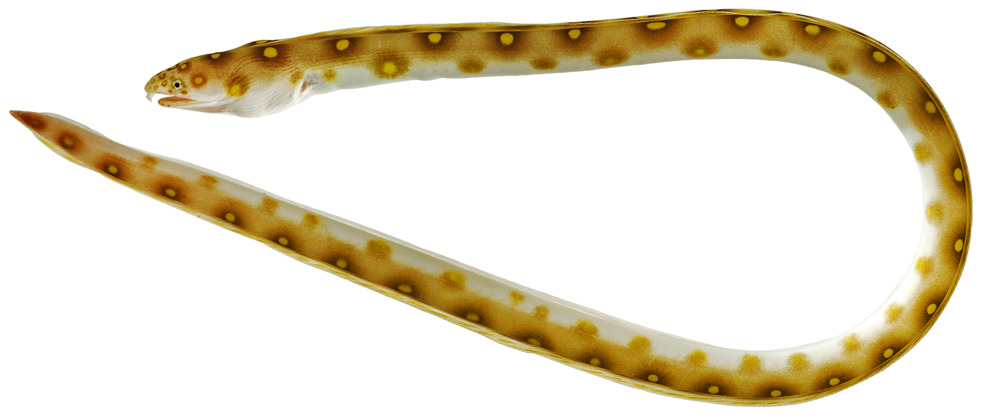 Myrichthys ocellatus (Lesueur, 1825)—goldspotted eel, 383 mm TL. Photo by JT Williams.